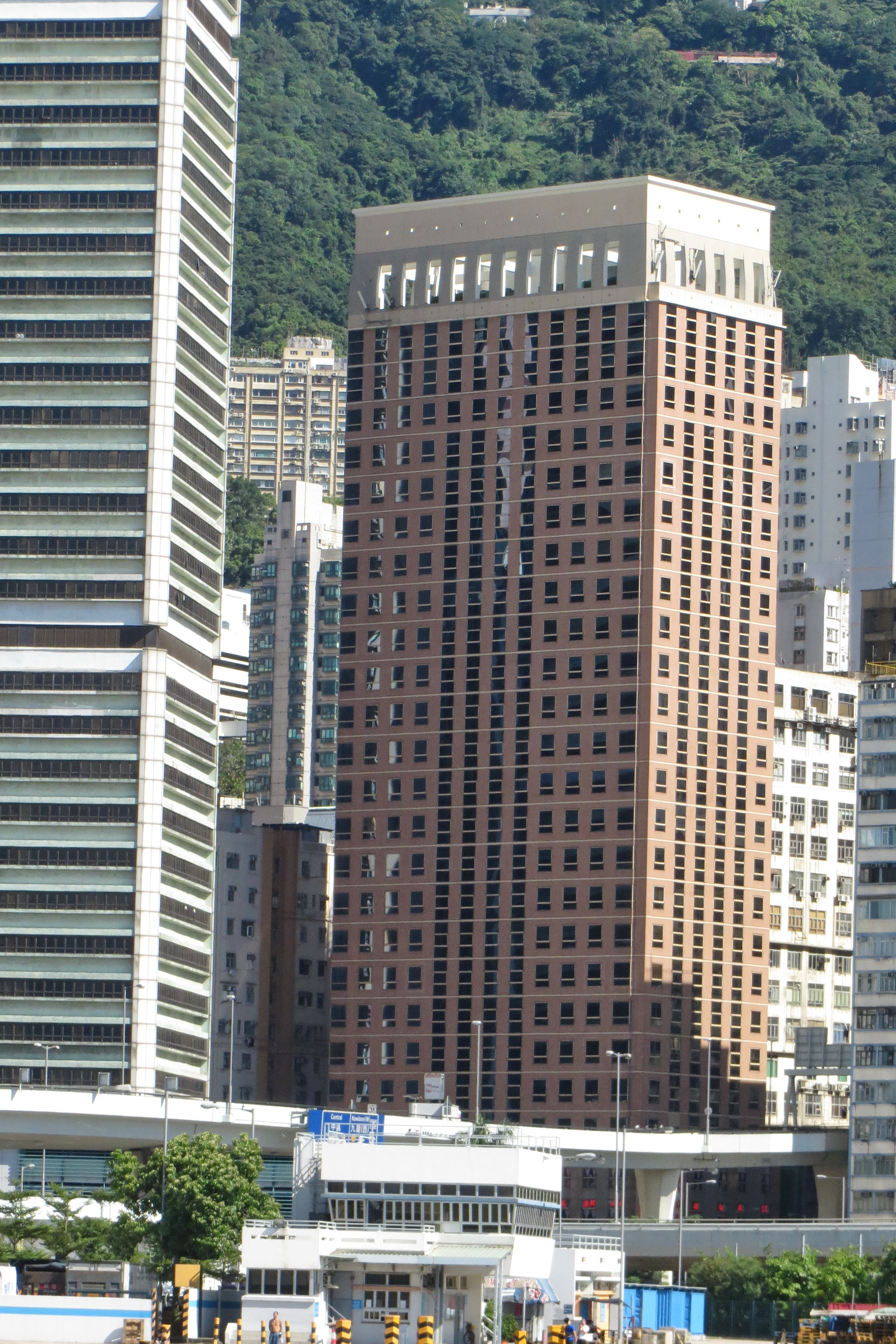 Pacific Plaza, 410 Des Voeux Road West, Western District, Hong Kong.